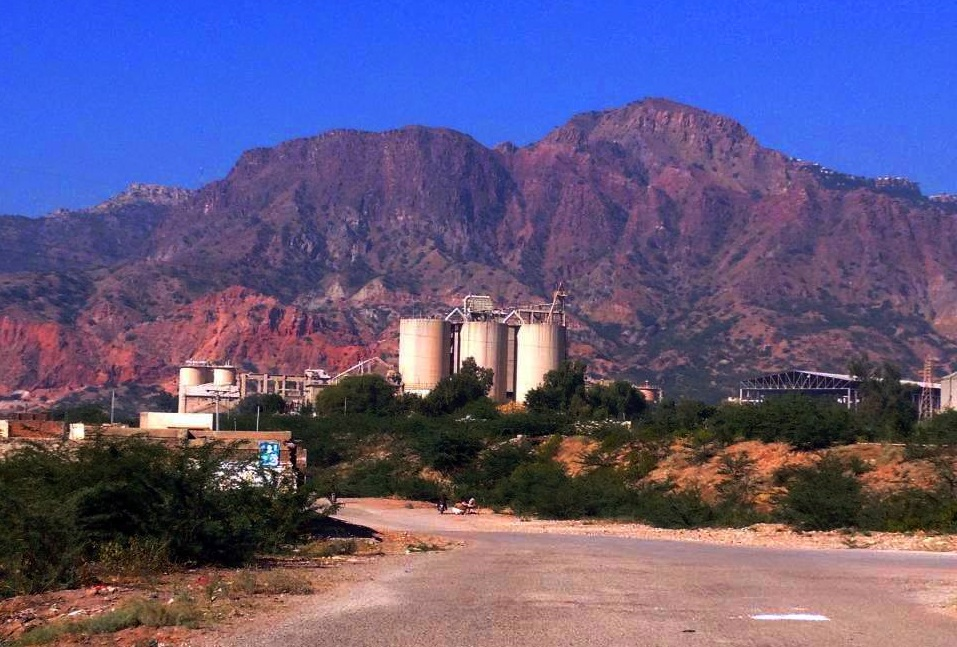 For_Map